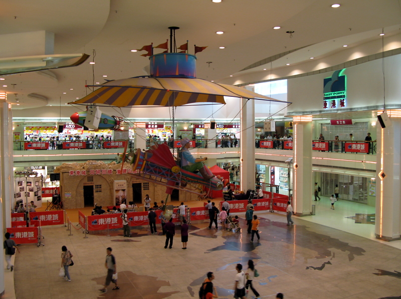 East Point City Void before renovation (2007) in Hong Kong